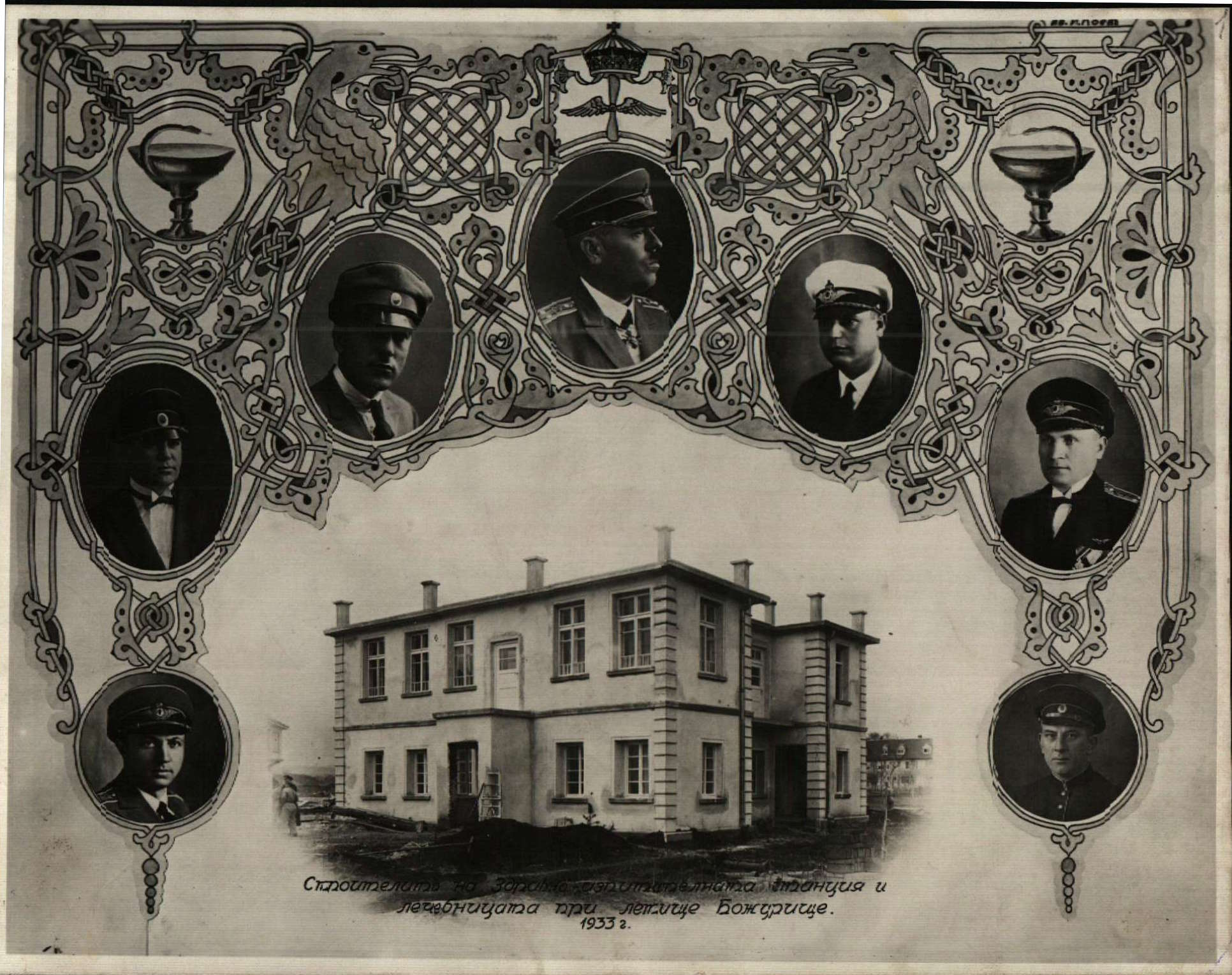 A postcard commemorating the construction of a test-station and a medical aid center at Bozhurishte airport near Sofia